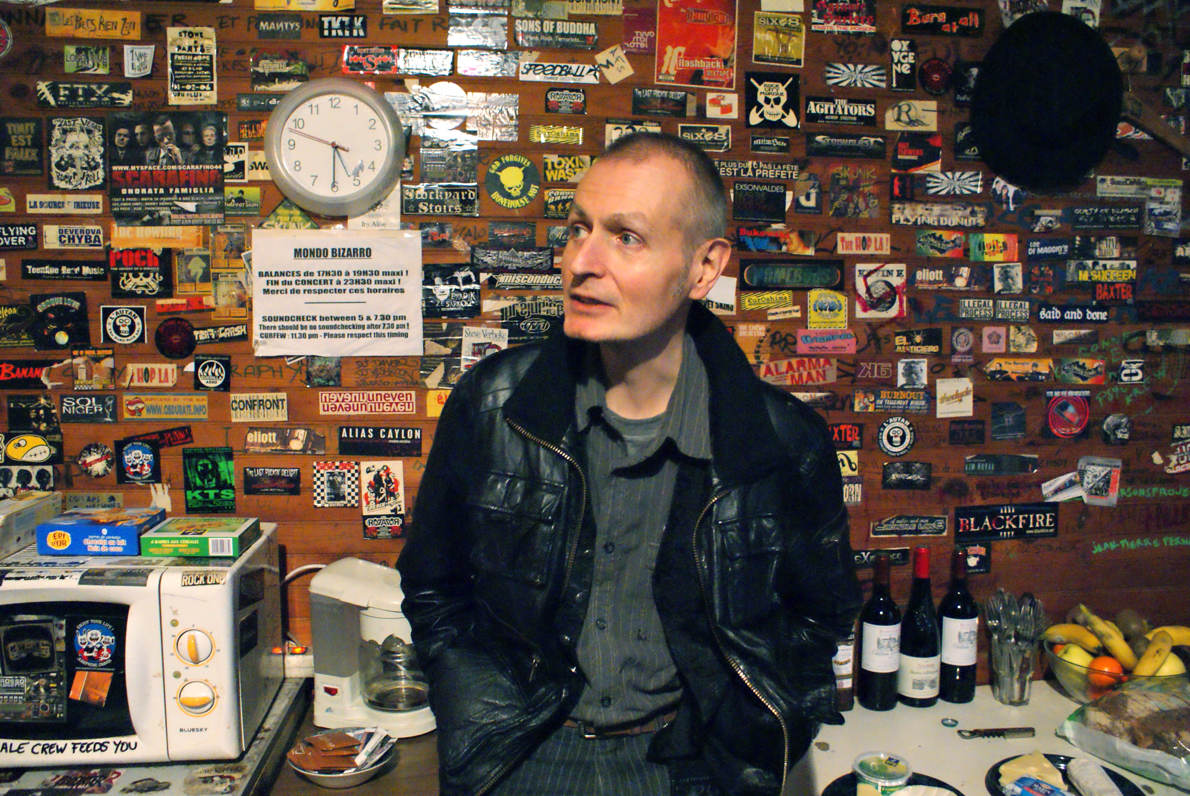 Jacques Duvall before a show in Rennes (France), january 2010.